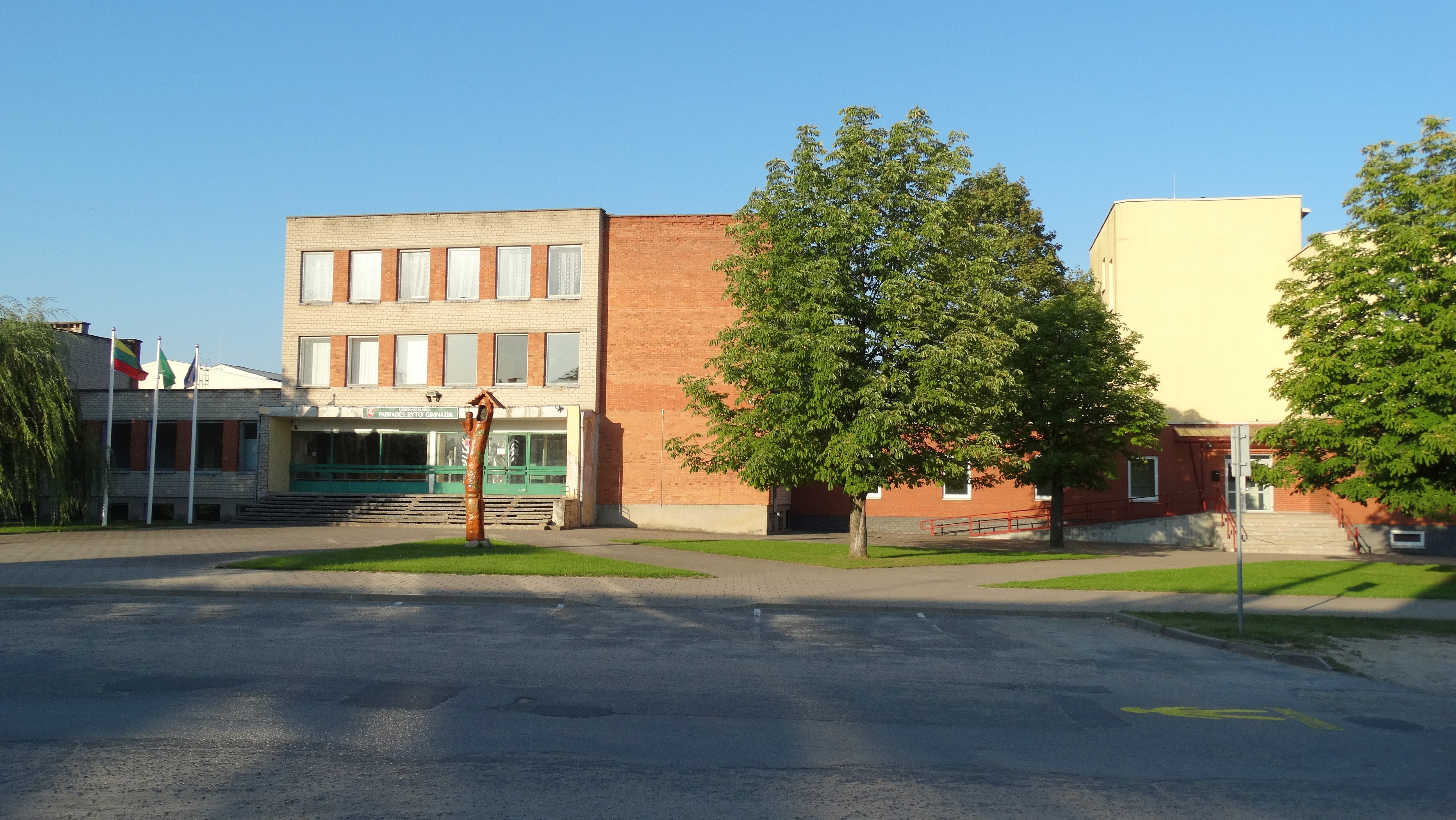 Rytas Gymnasium, Pabradė, Švenčionys District, Lithuania